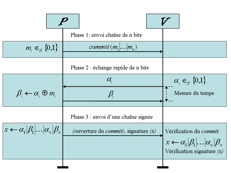 Distance bounding protocol of Brands and Chaum